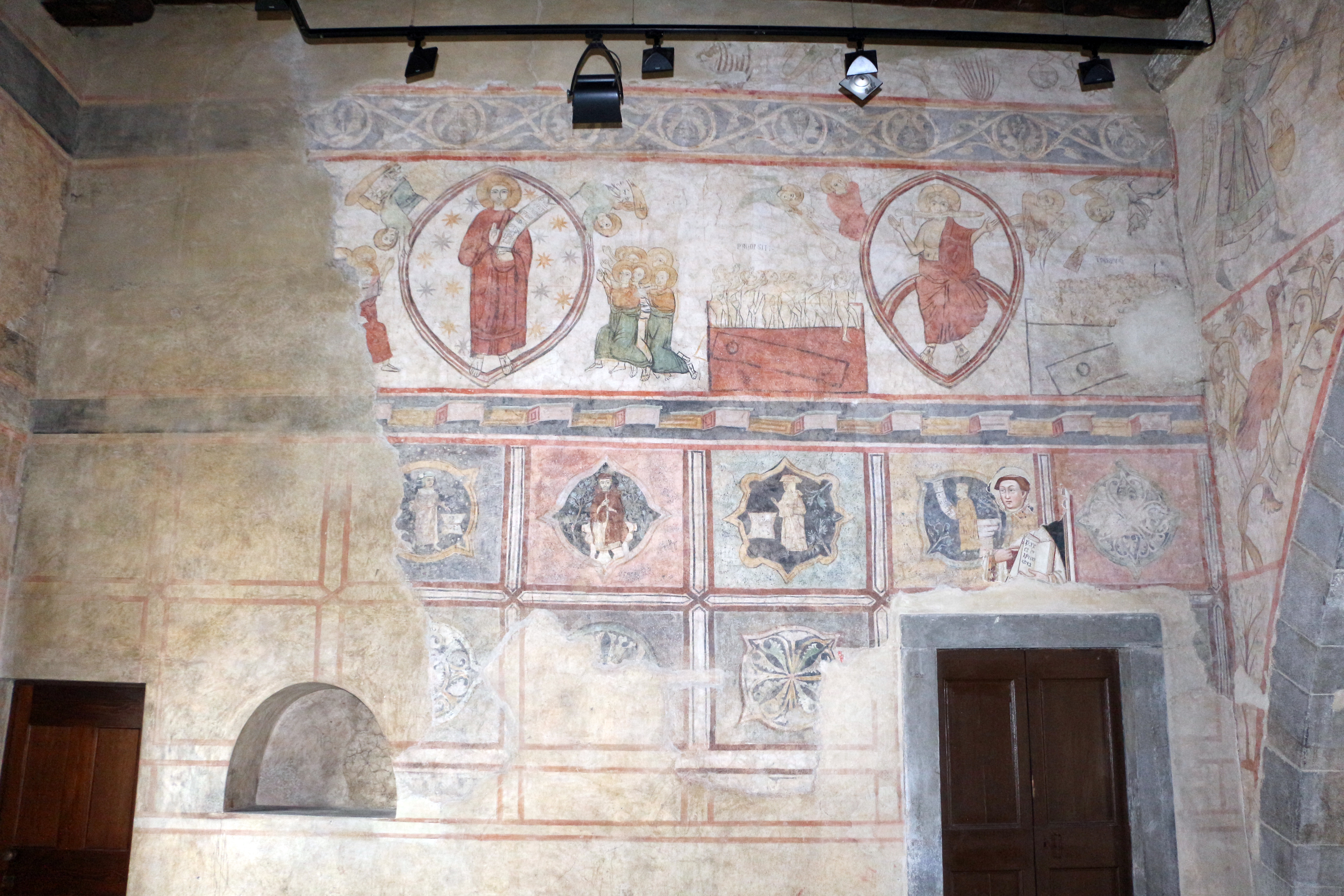 Palazzo della Curia Vescovile (Bergamo)